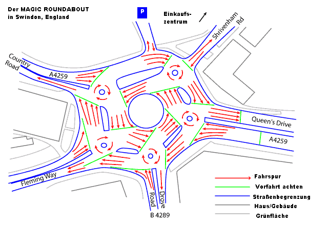 Map of the Magic Roundabout in Swindon.